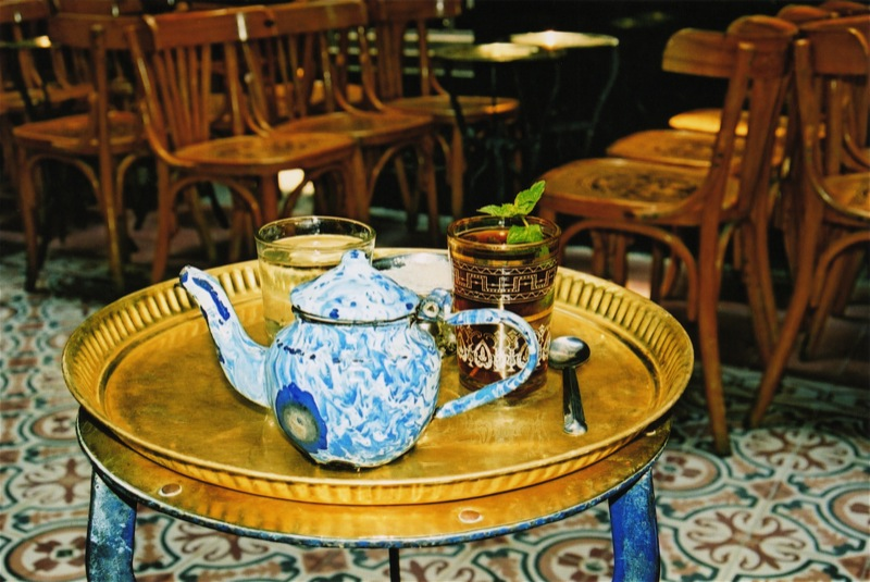 At the Khan El Khalili Bazaar, Cairo